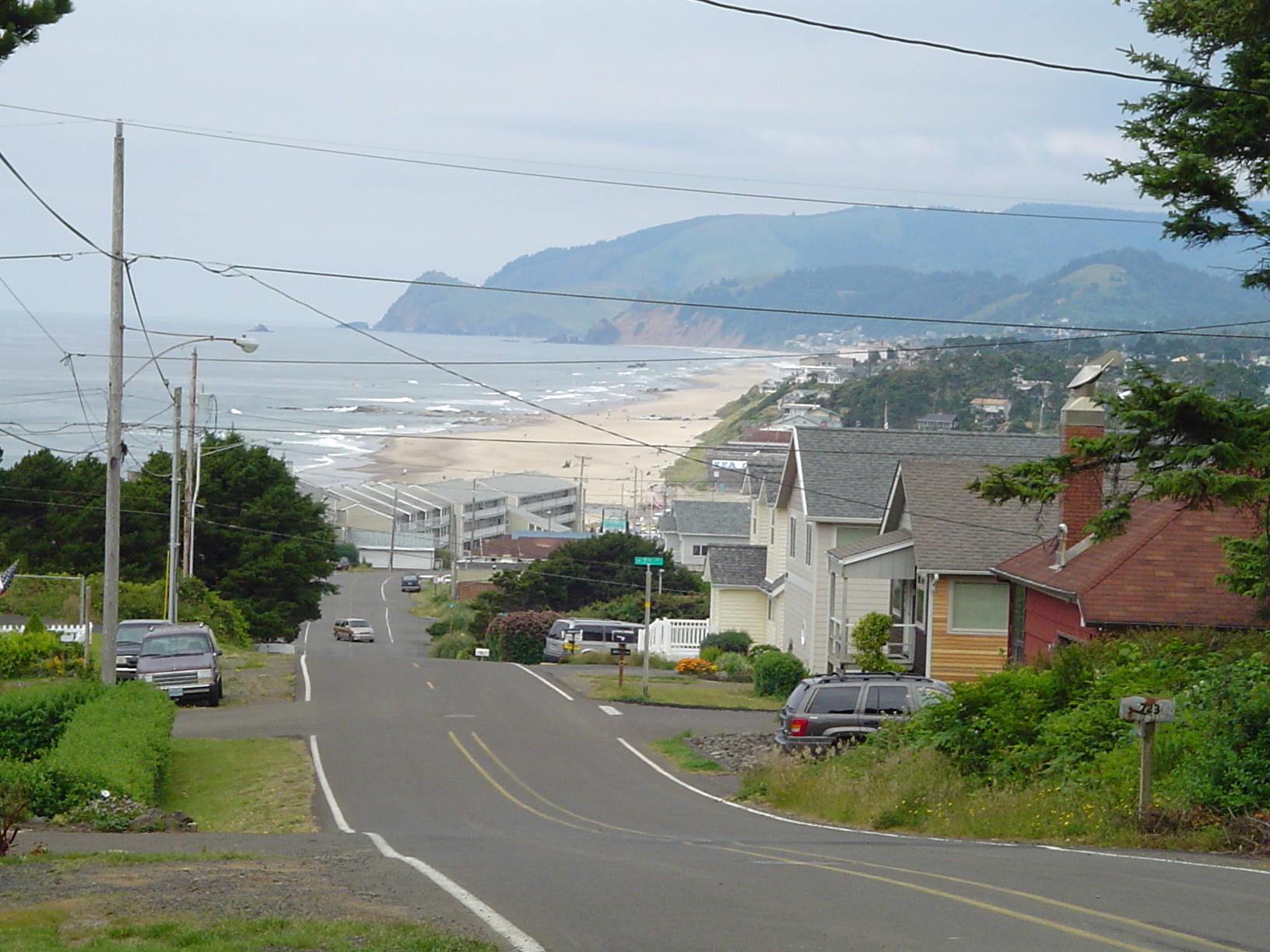 Lincoln City, Oregon